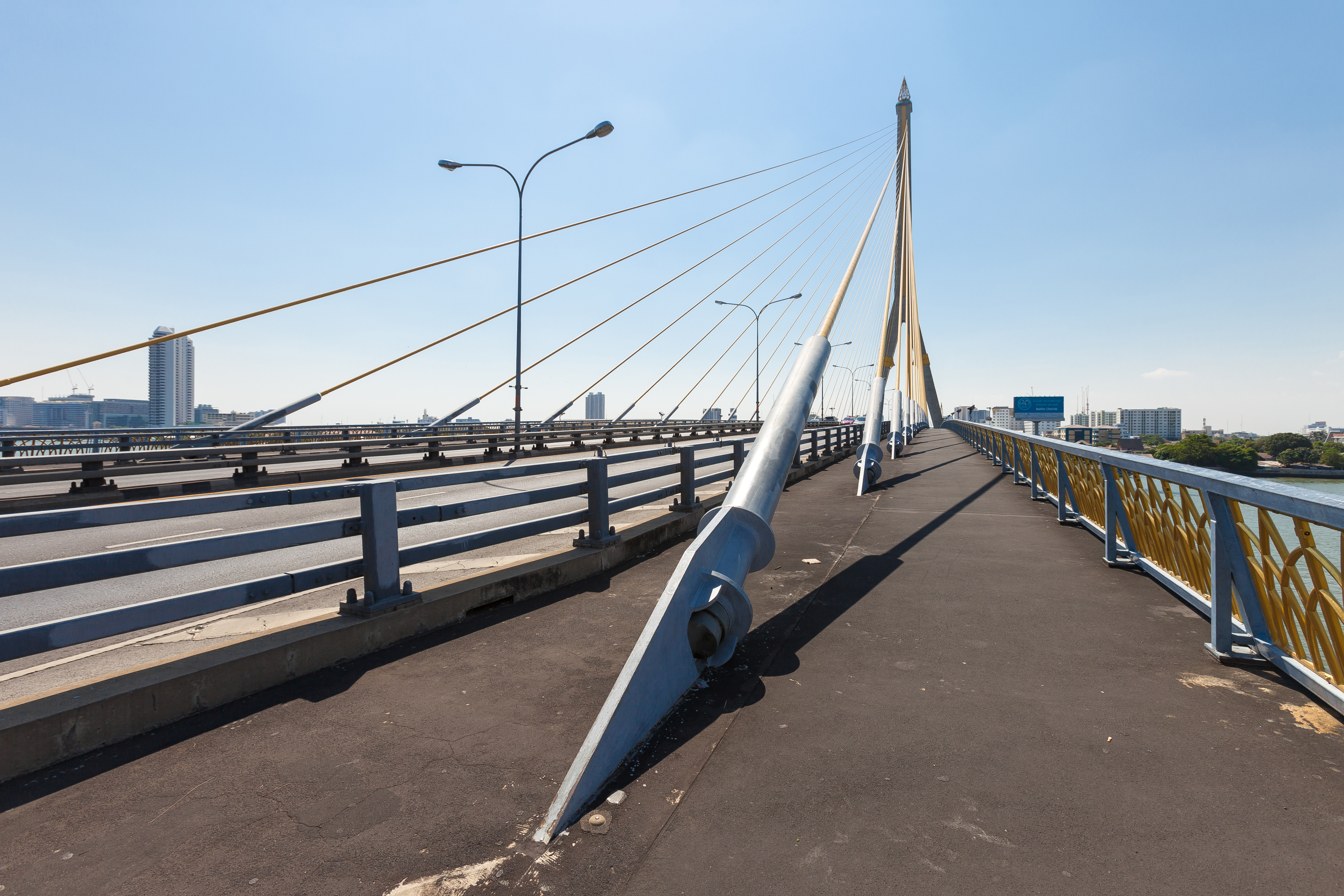 Rama VIII Bridge, one of the world's largest asymmetrical cable-stayed bridges at the time of its completion, located at Bangkok.